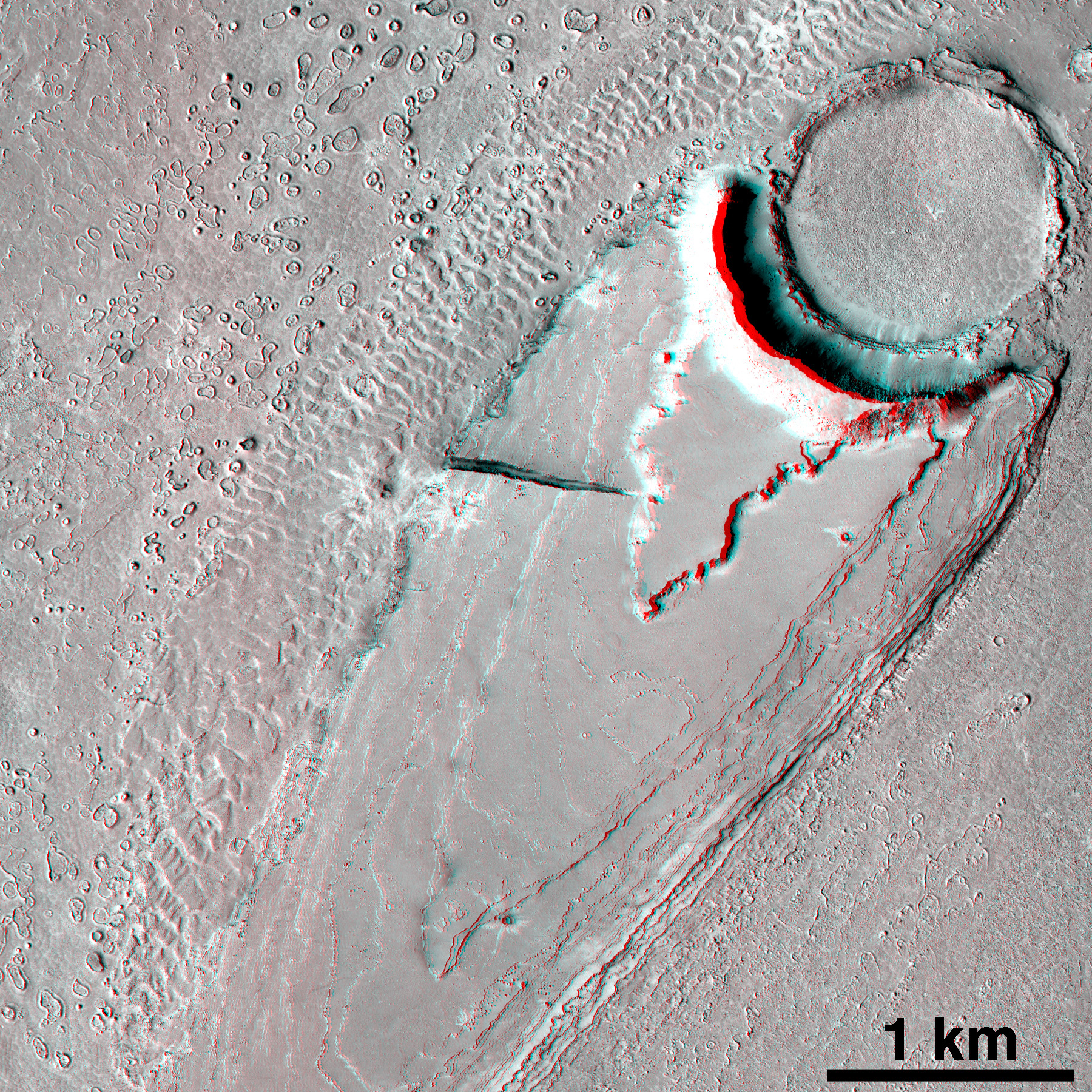 Giant ripple marks in the valley flow; Athabasca Valles, Mars